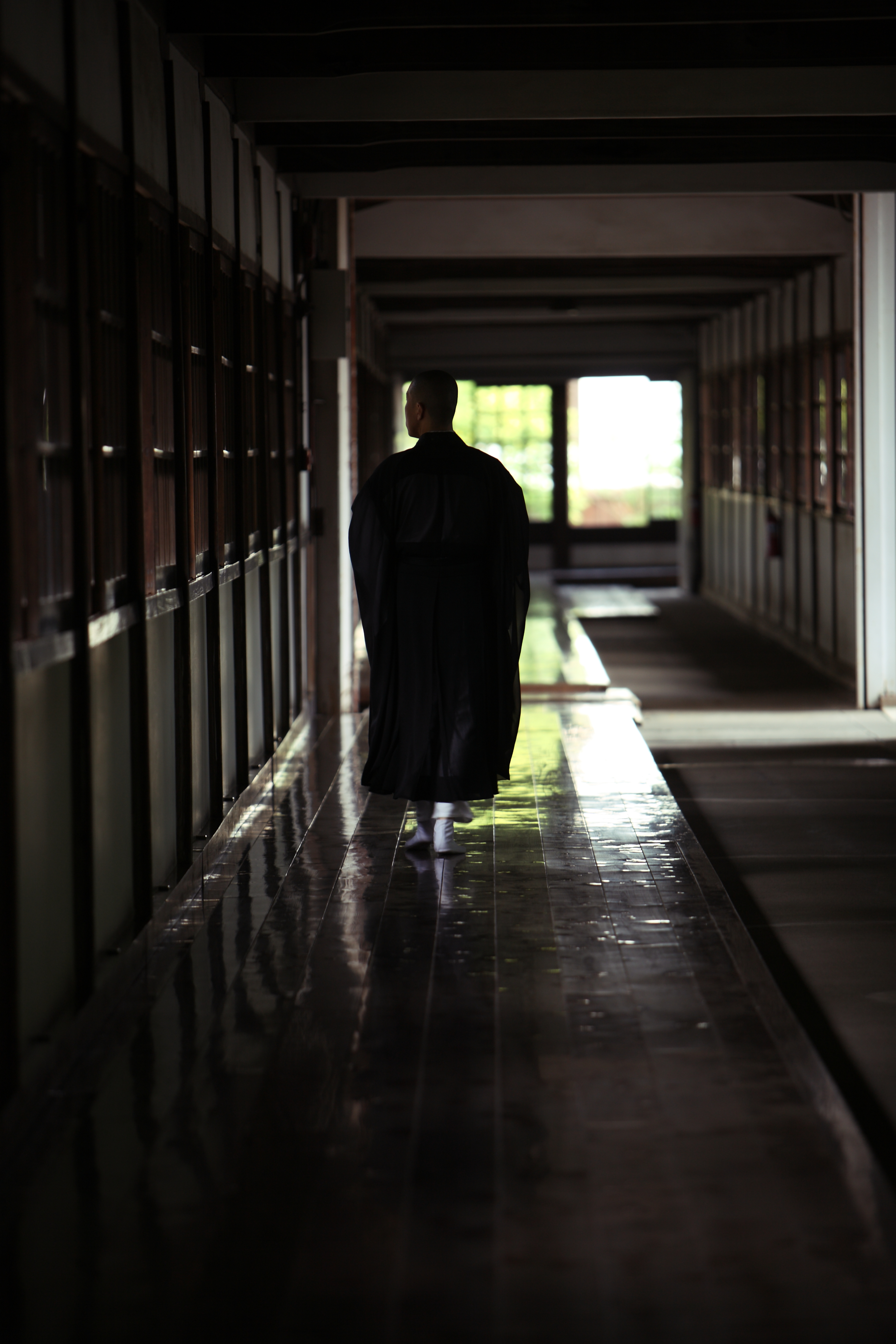 The corridor inside the Sōji-ji temple.